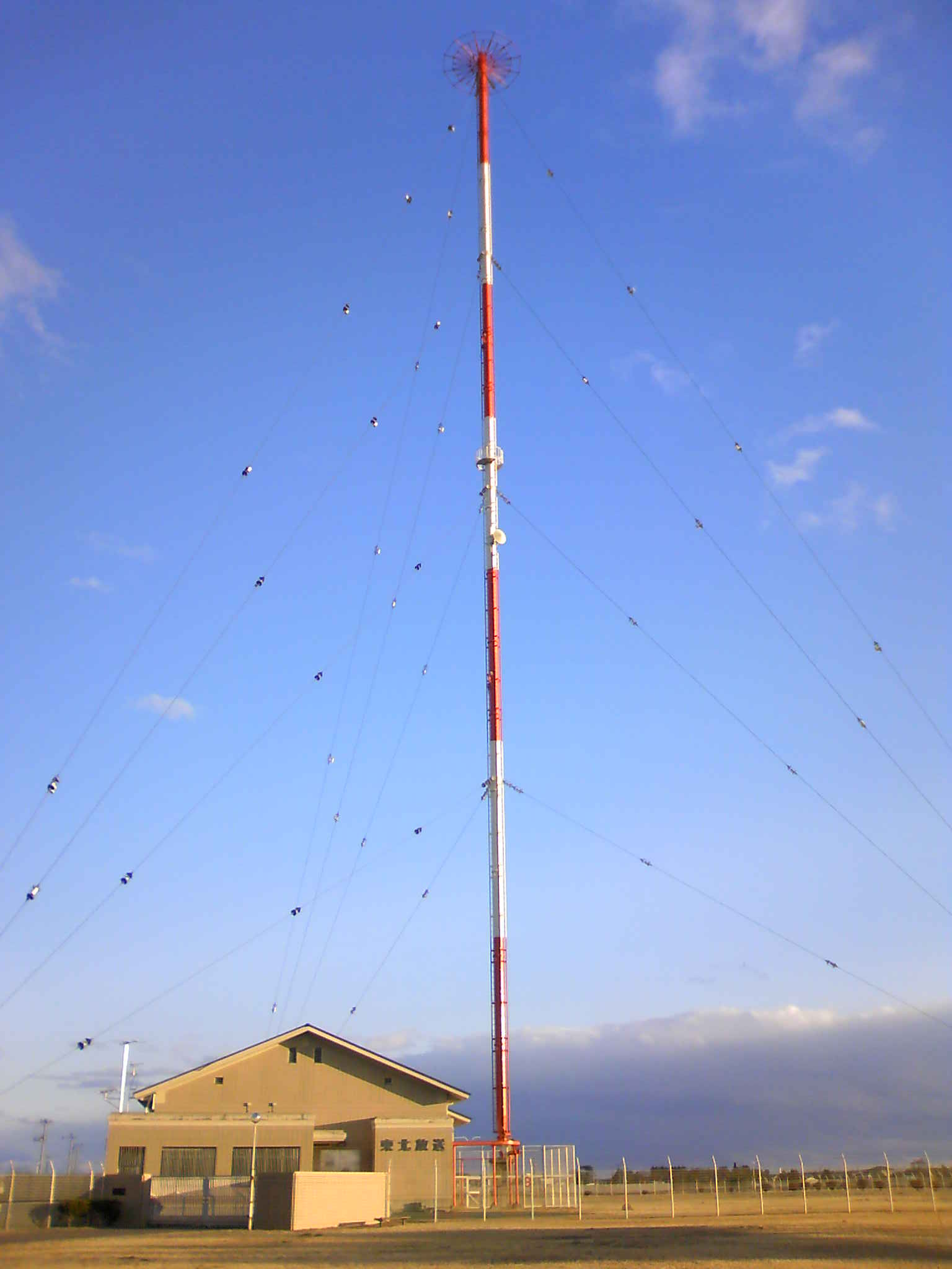 TBC Radio Arai Transmitting Station (JOIR 1260kHz 20kW)